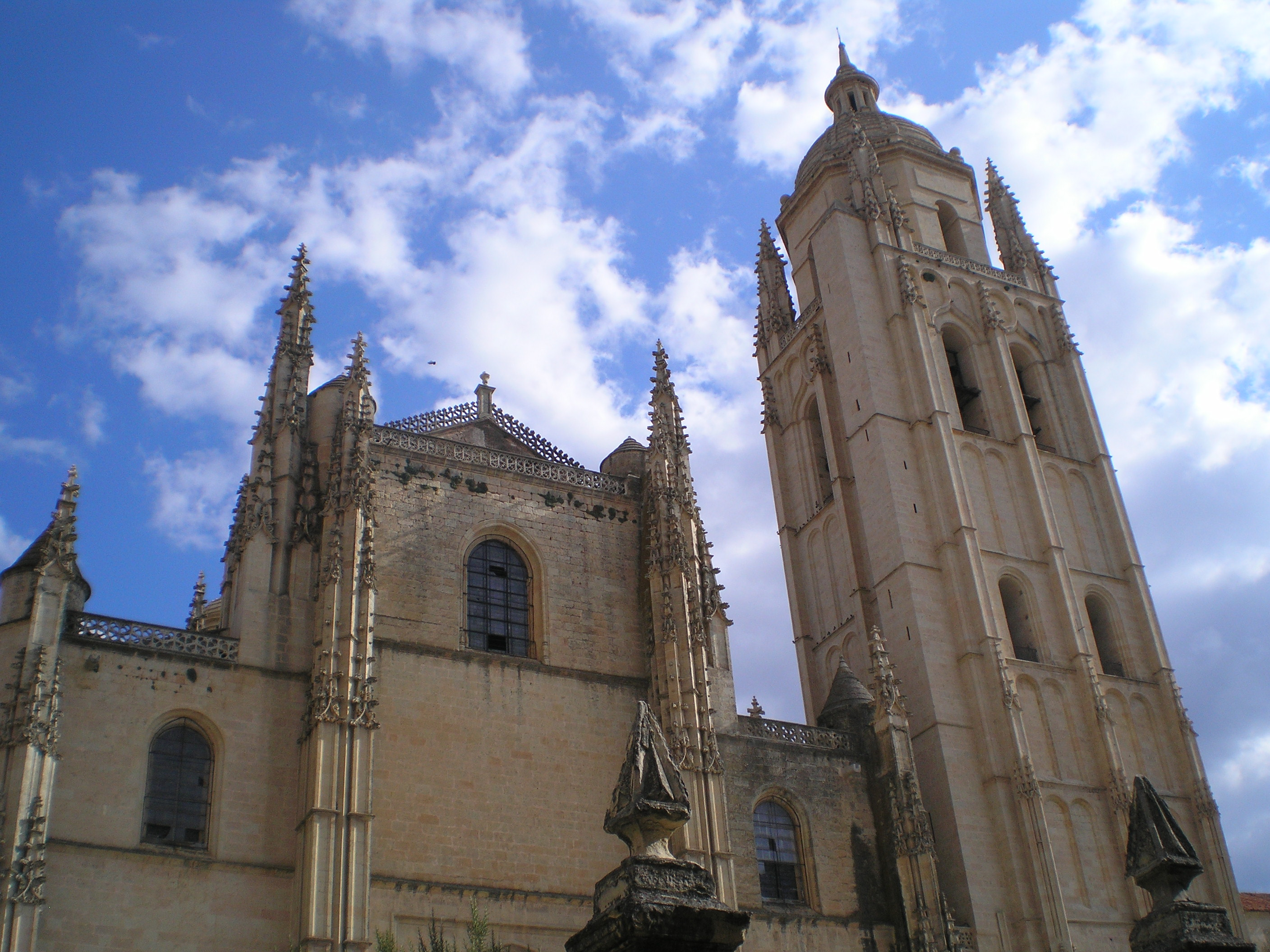 Cathedral of Segovia, front facade.